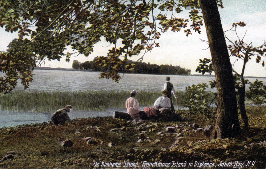 Oneida Lake on Dunhams Island with Frenchmens Island in distance - South Bay, New York about 1910